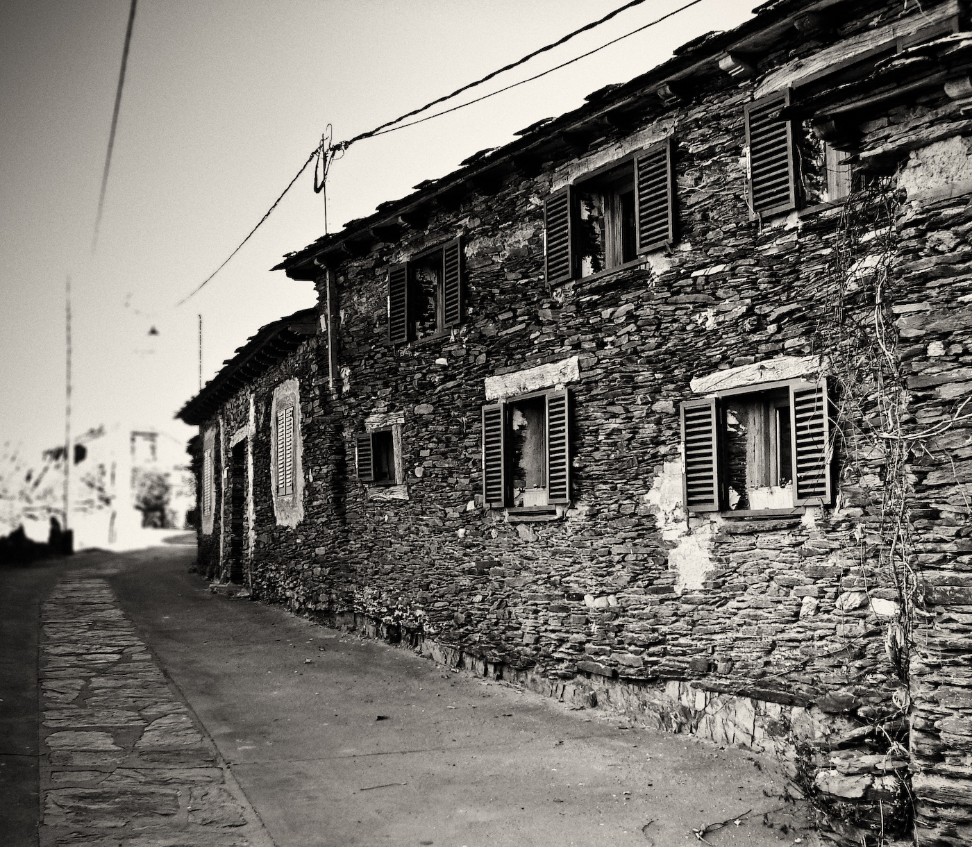 Typical buildings of Arquitectura Negra in Campillo de Ranas, Guadalajara, Spain.